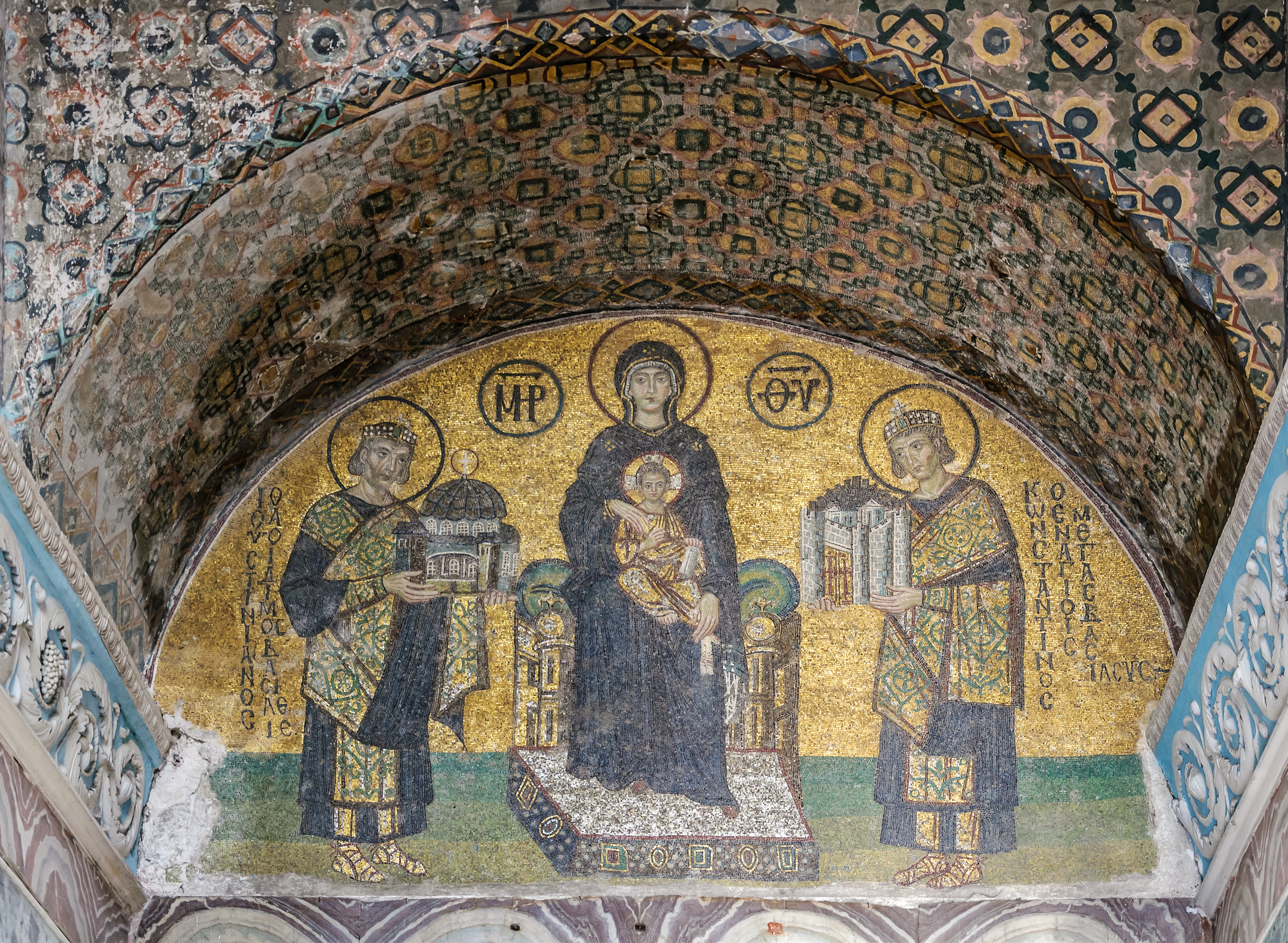 Southwestern entrance mosaic of the former basilica Hagia Sophia of Constantinople (Istanbul, Turkey) The Virgin Mary is standing in the middle, holding the Child Christ on her lap. On her right side stands emperor Justinian I, offering a model of the Hagia Sophia. On her left, emperor Constantine I, presenting a model of the city